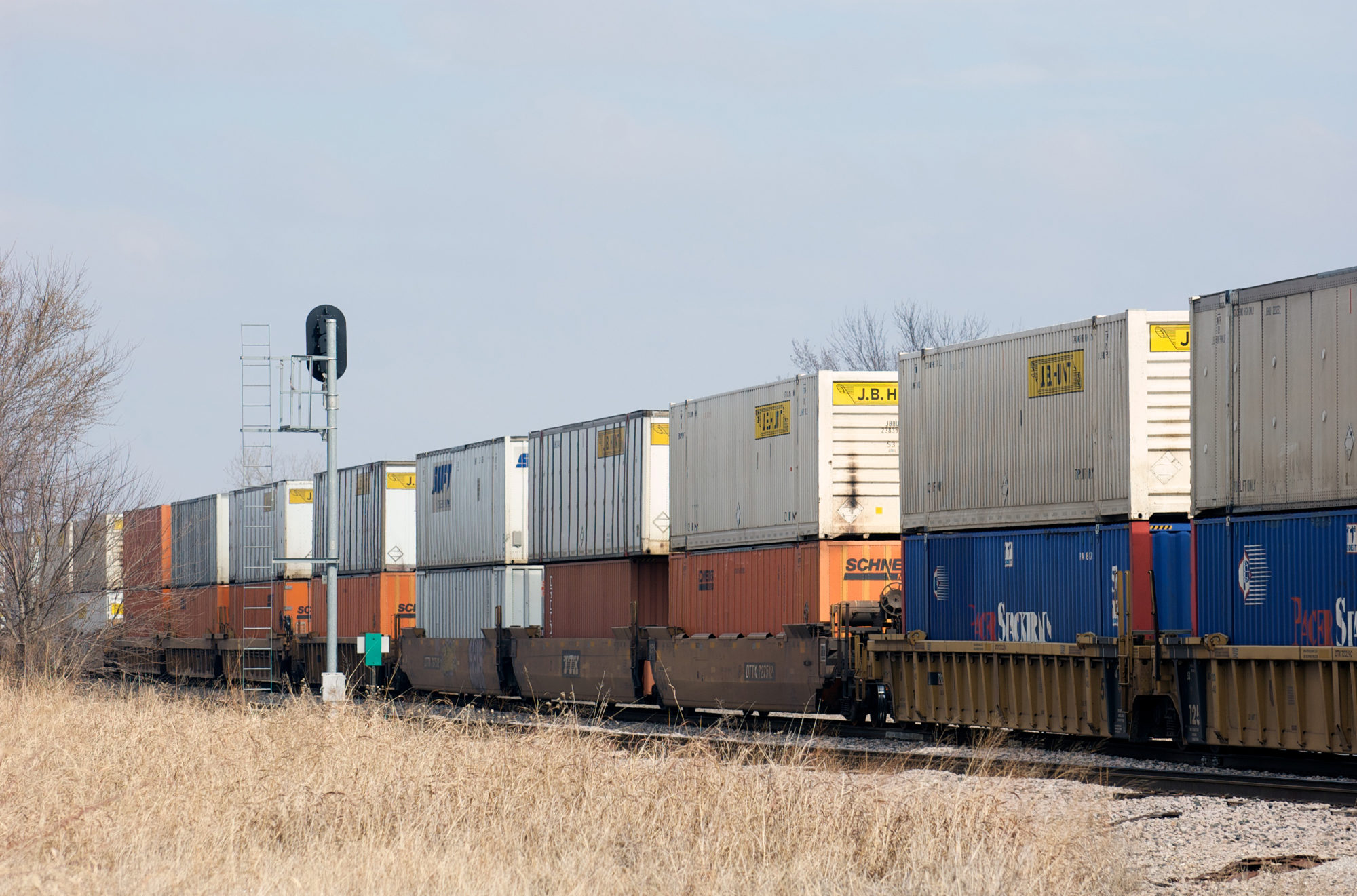 A BNSF westbound intermodal with JB Hunt and Schneider containers,passes through Claremore, OK on Valentine's Day.